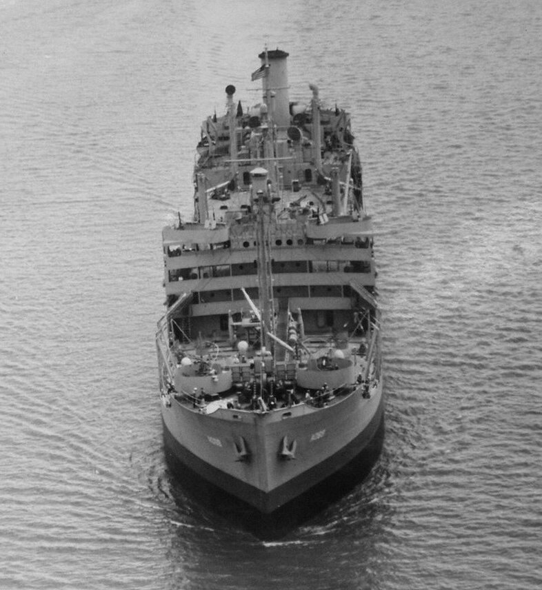 The U.S. Navy fleet oiler USS Enoree (AO-69) underway near Norfolk, Virginia (USA) on 17 May 1943.